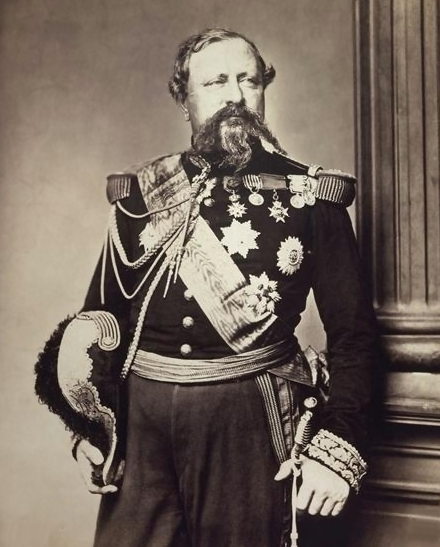 Edmond Lebœuf (* 5 November 1809; † 7 June 1888), french general, marshal of France since 1870.